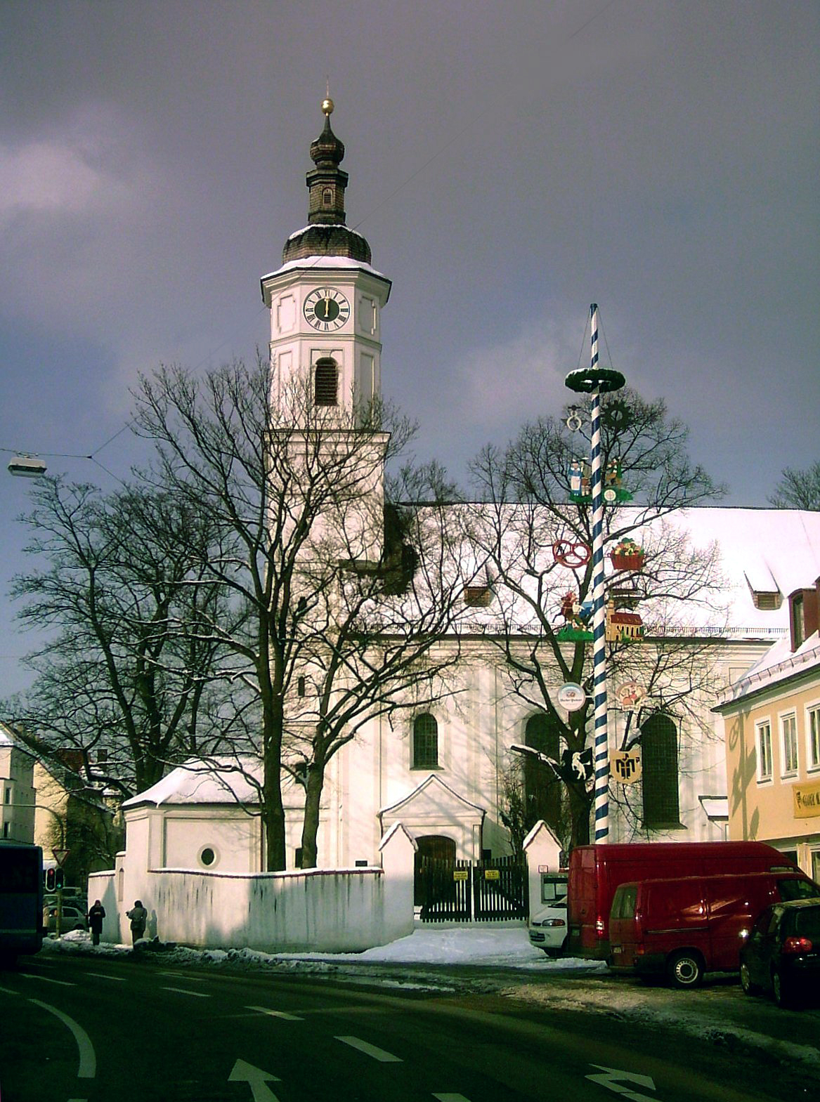 Old Church St. Margaret at Munich/Sendling seen from South (Plinganserstraße).